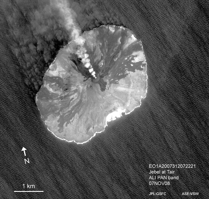 The stratovolcano Jabel al Tair emits a plume on 2007-11-08. Imaged by the Advanced Land Imager on the EO-1 satellite.